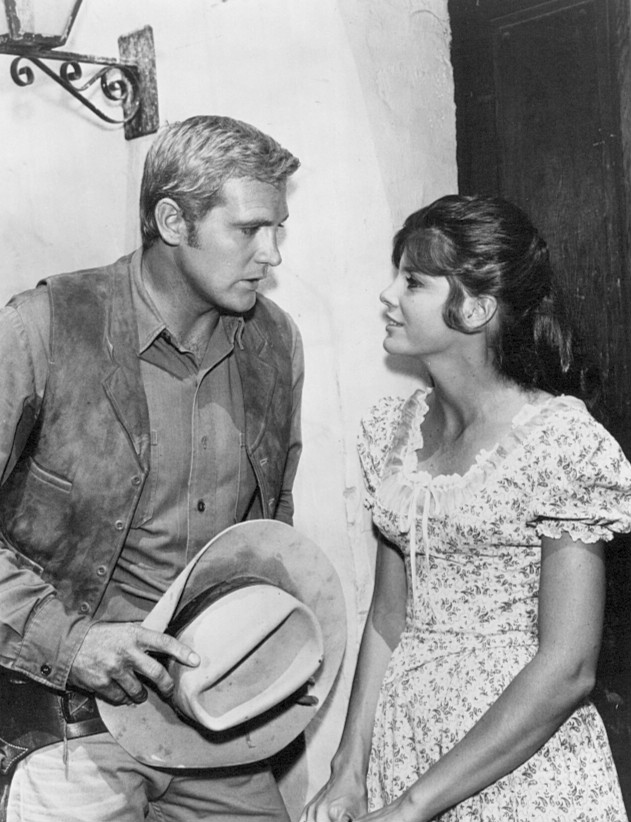 Photo of Lee Majors and Katharine Ross from the television series The Big Valley.